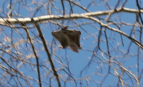 author: A. Freeman. Northern flying squirrel (Glaucomys sabrinus) in the USA